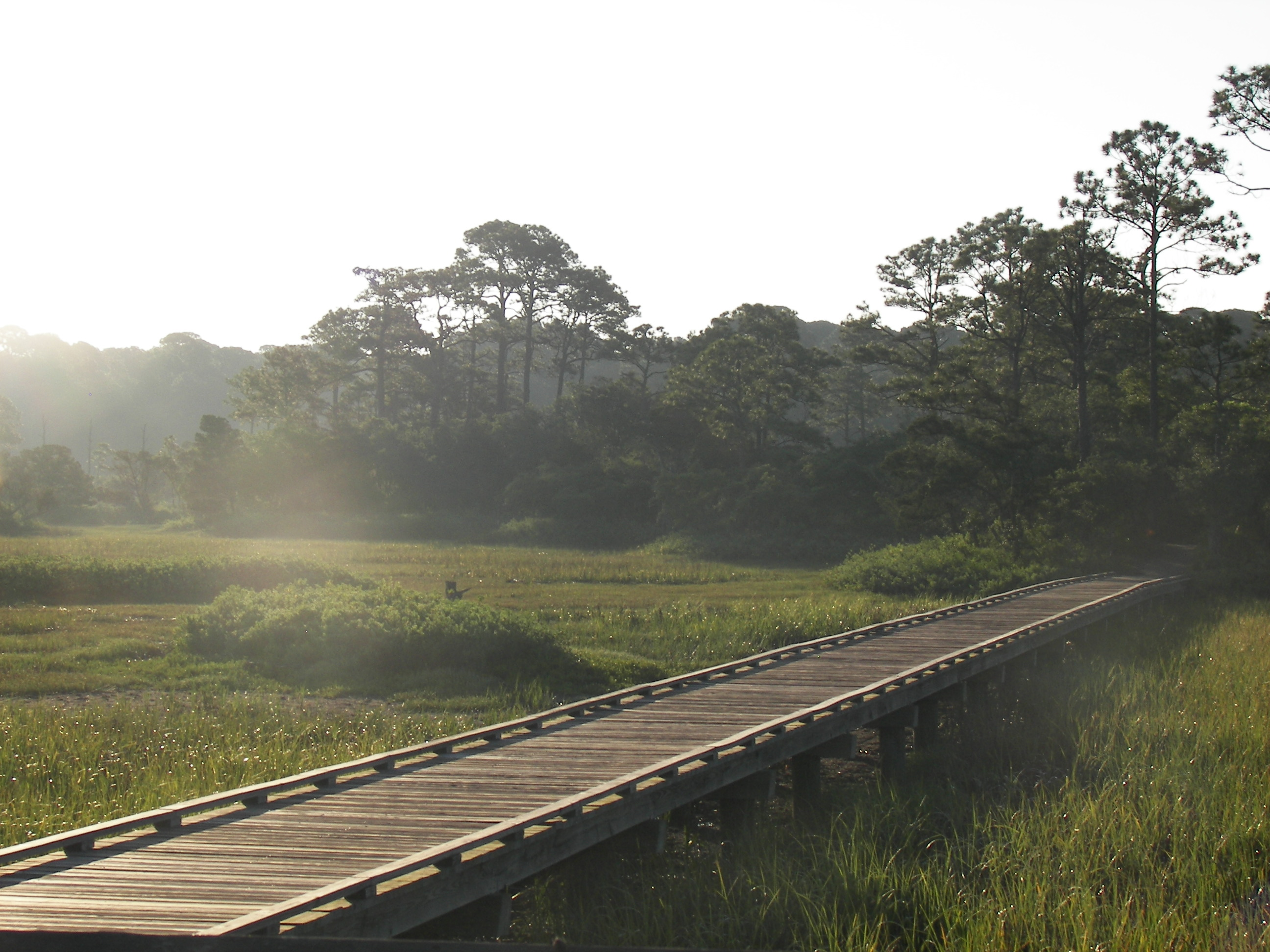 The Marsh Boardwalk at Hunting Island State Park — in Beaufort County, South Carolina.